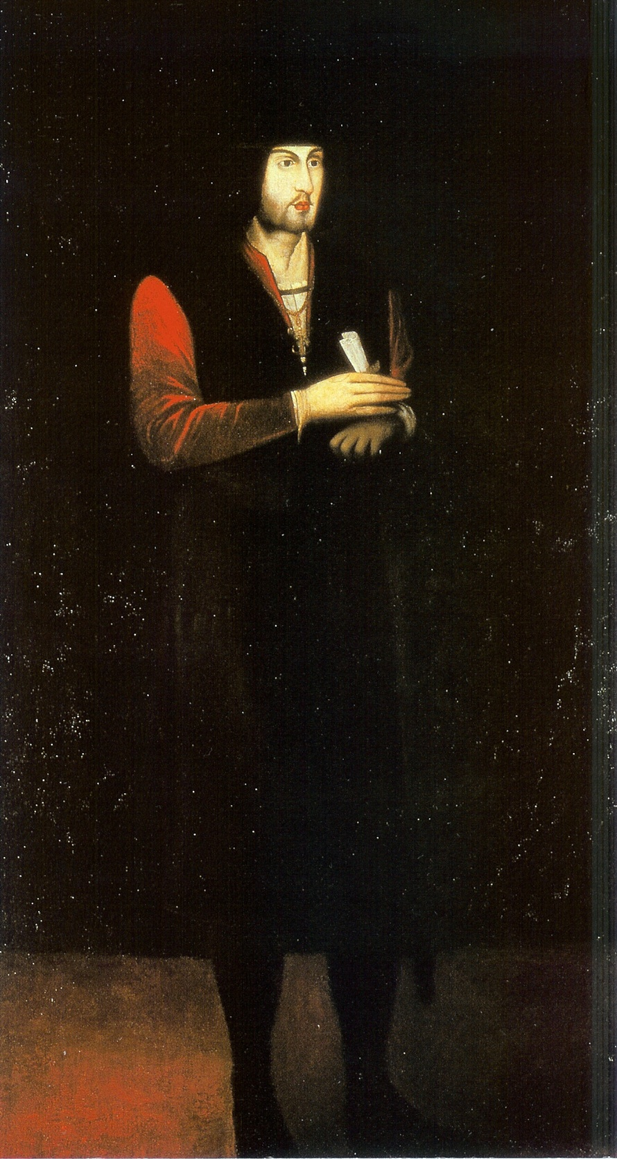 Dom João II (John II) of Portugal. 18th century portrait based in an earlier 16th century painting